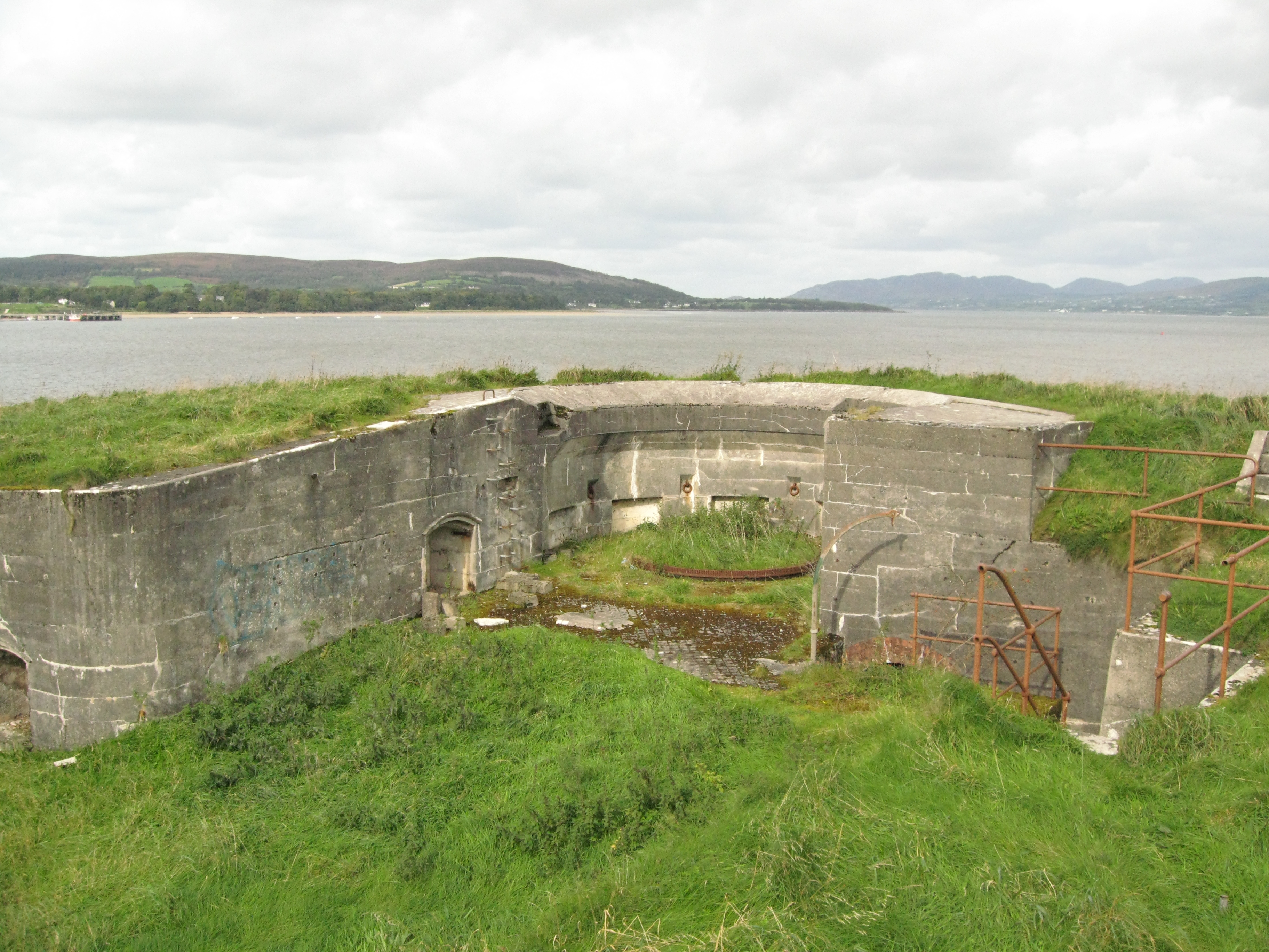 Inch Fort (or Inch Island Fort), County Donegal